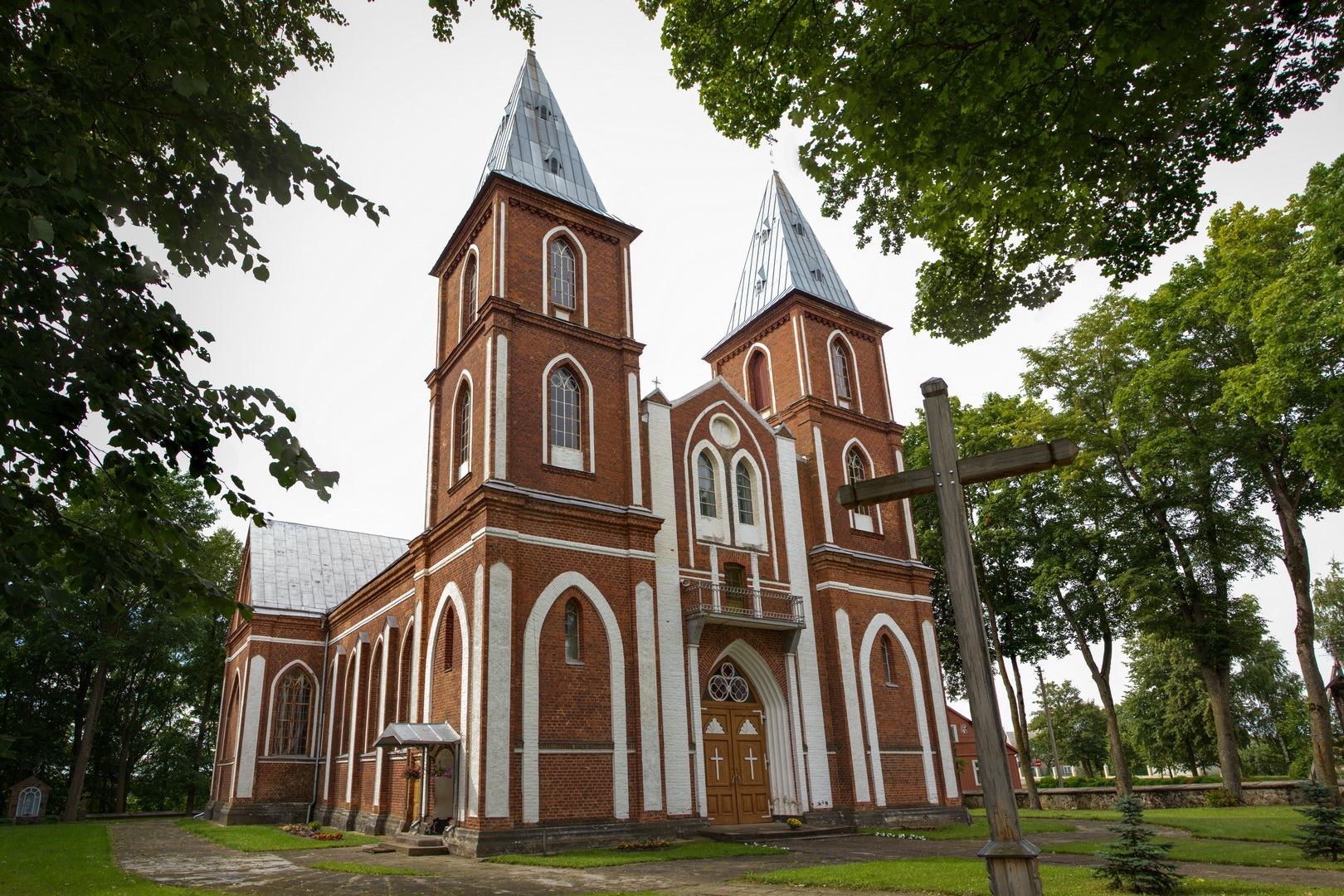 Papile Church 2013